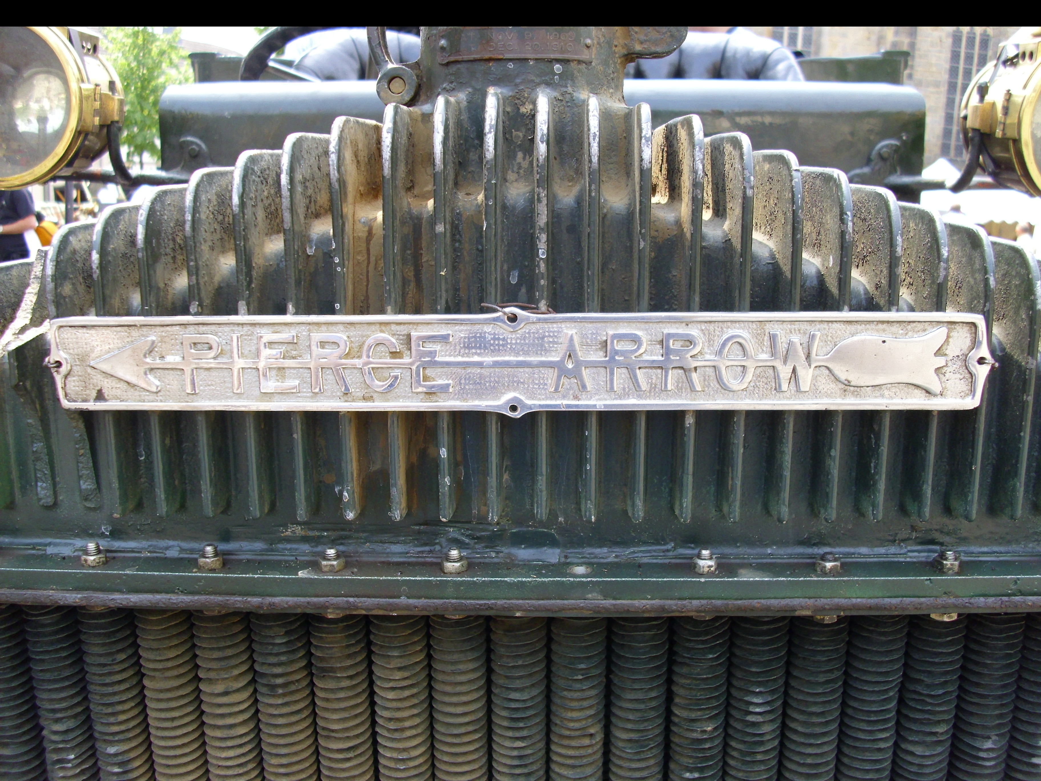 Emblem Pierce-Arrow